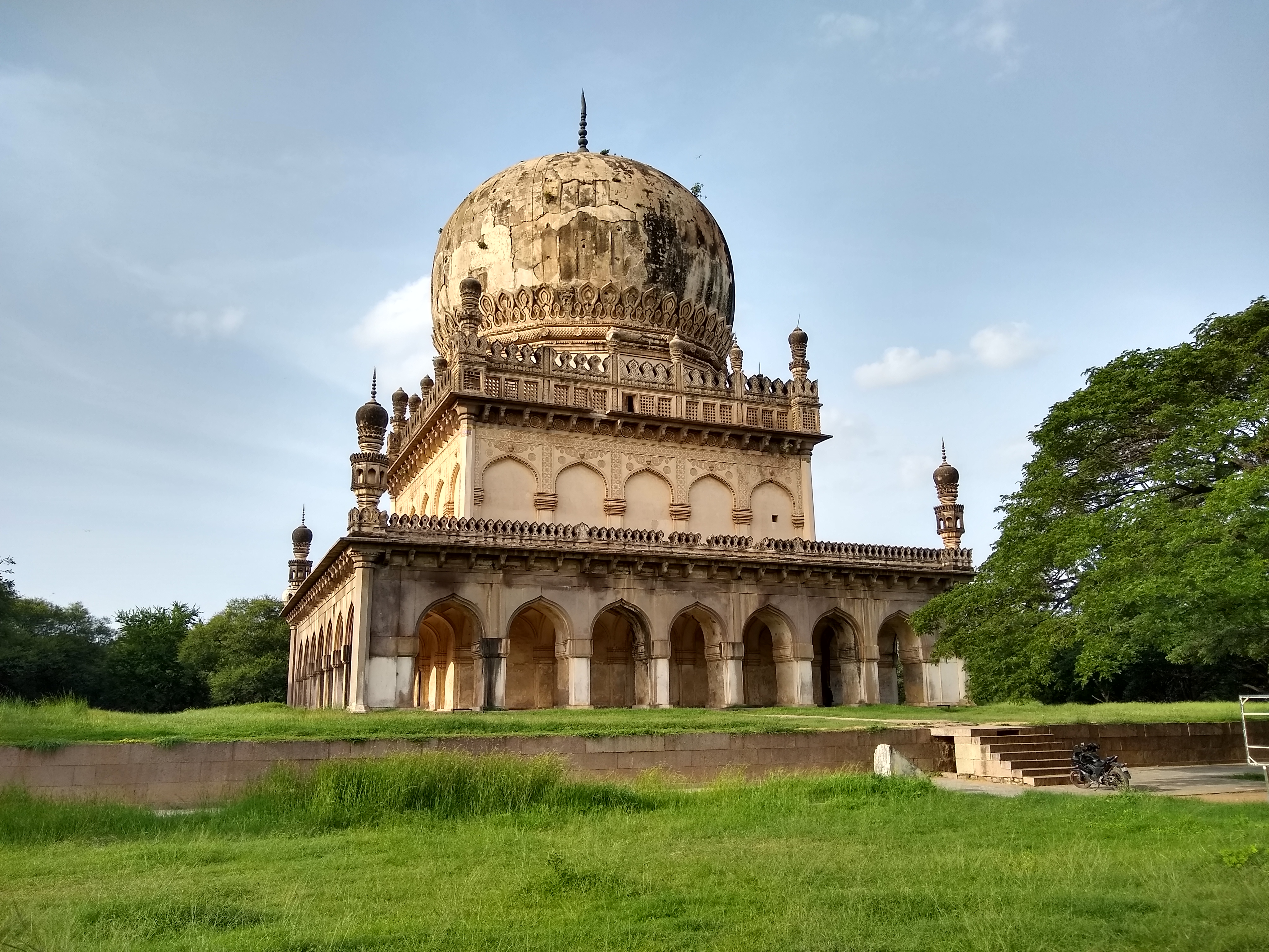 Qutb Shahi Tombs